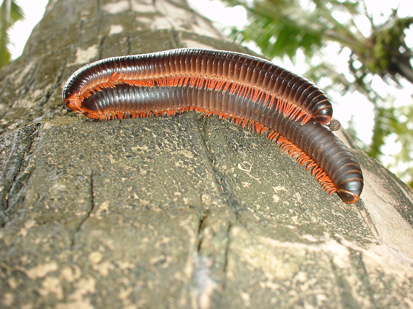 Two millipedes together (Malindi, Kenya)